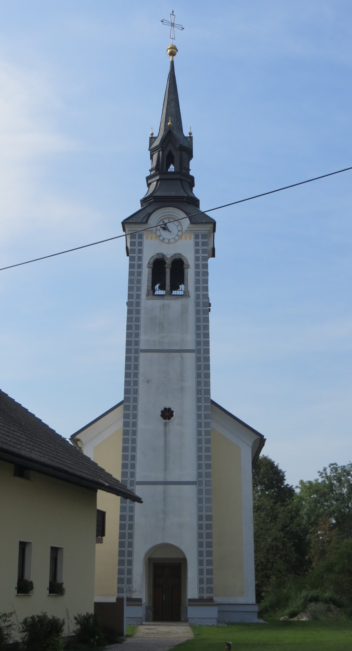 Holy Cross Church in Prebačevo, Municipality of Šenčur, Slovenia